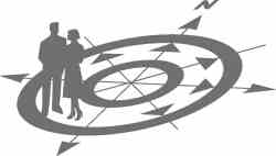 Marine Institute Ireland, Strategic_Planning_Symbol